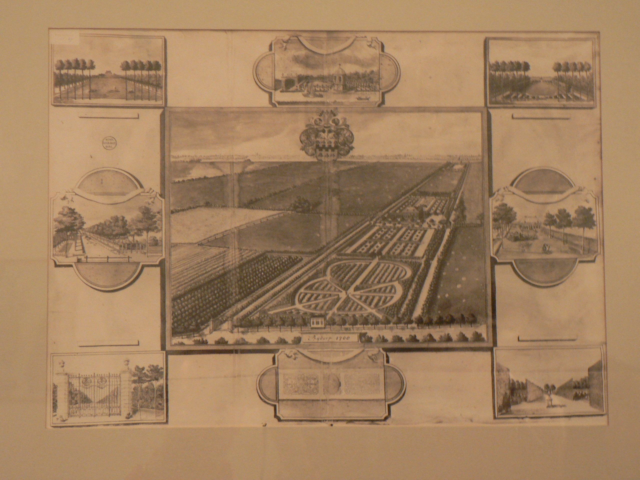 Bijdorp Mansion (Voorschoten, The Netherlands) around 1700